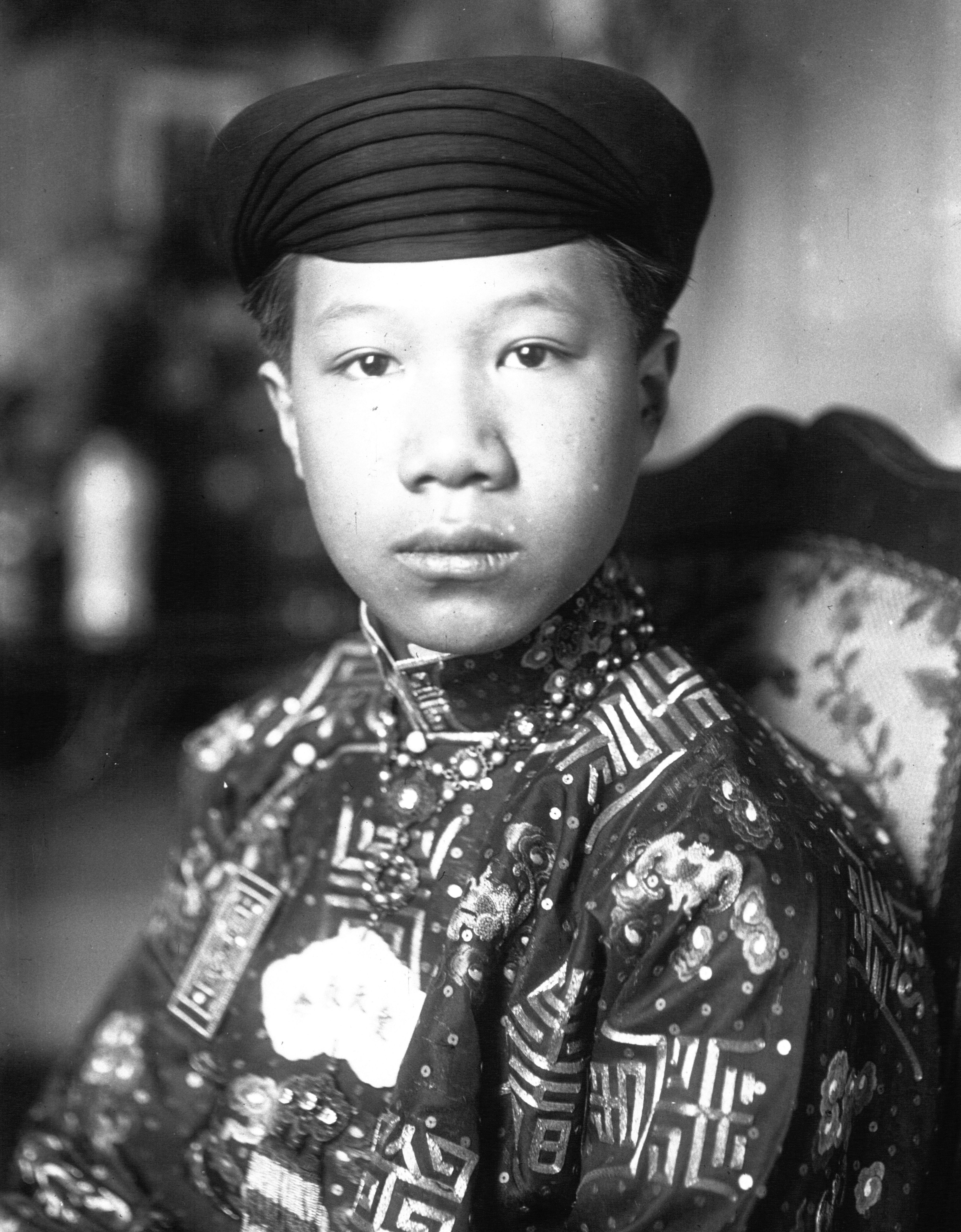 Emperor Bảo Đại as the young king of Annam in Paris in 1926.